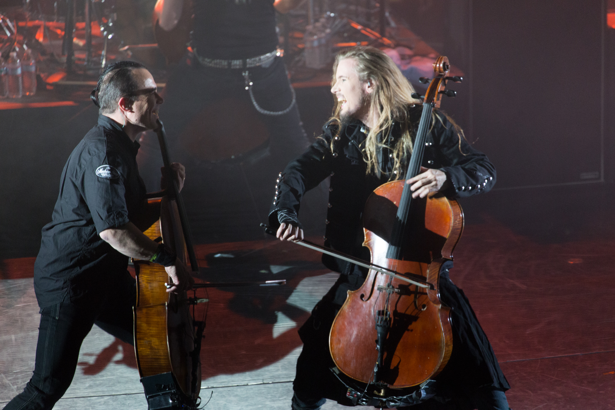 Apocalyptica performing at 70.000 tons of metal, january 2015